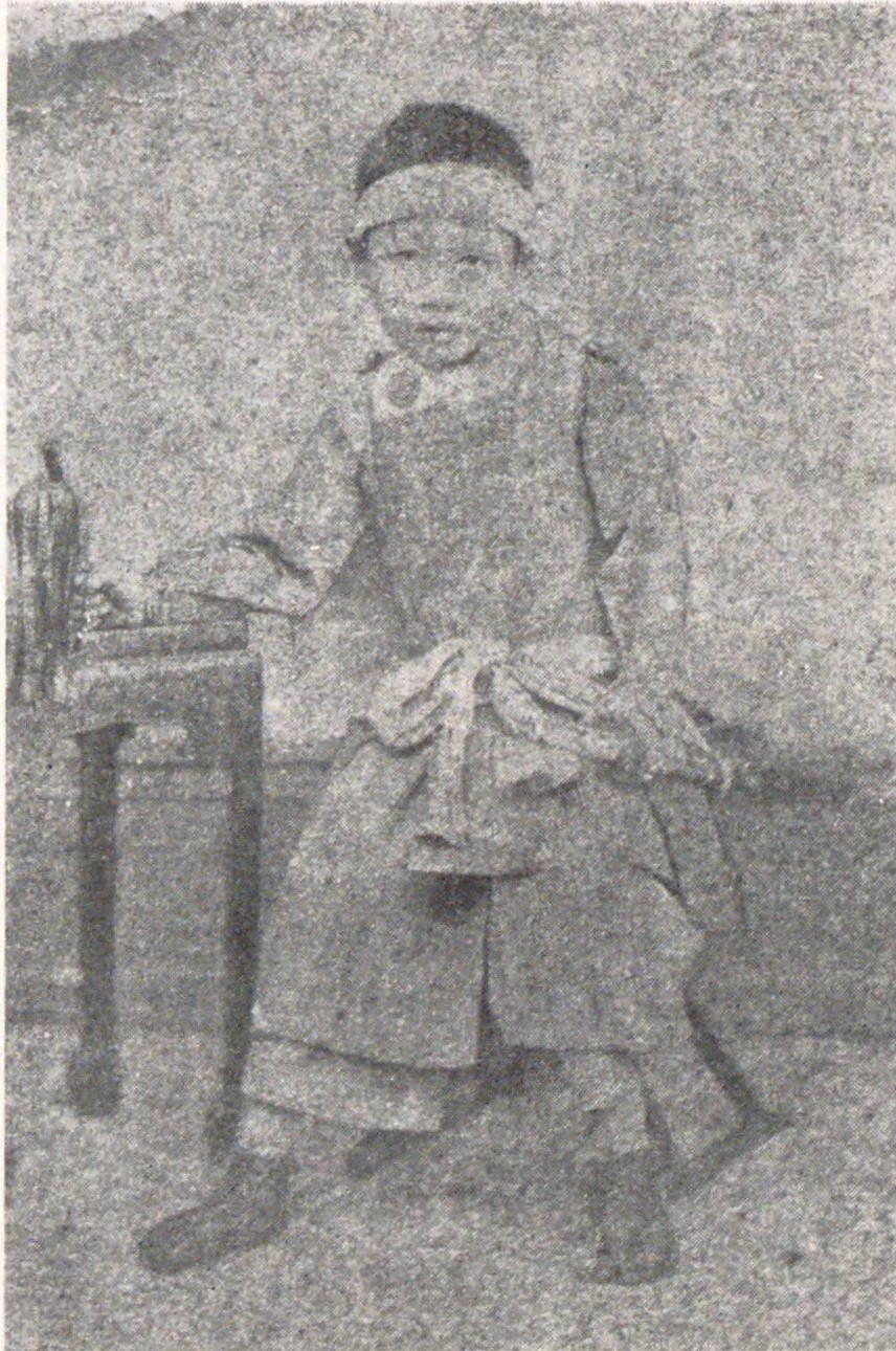 Natsume Soseki in 5-6 years old (1872-1873).